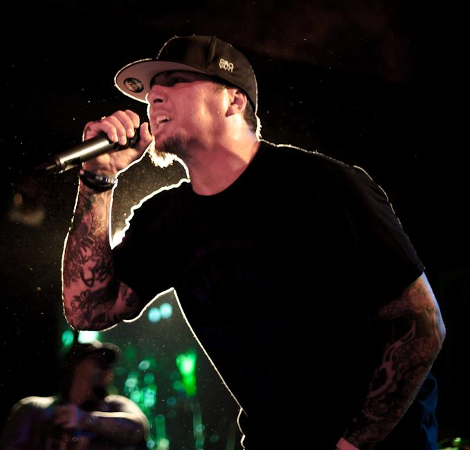 P.O.D. frontman Sonny Sandoval performing at the Belly Up Tavern in Solana Beach, California on May 17, 2011.